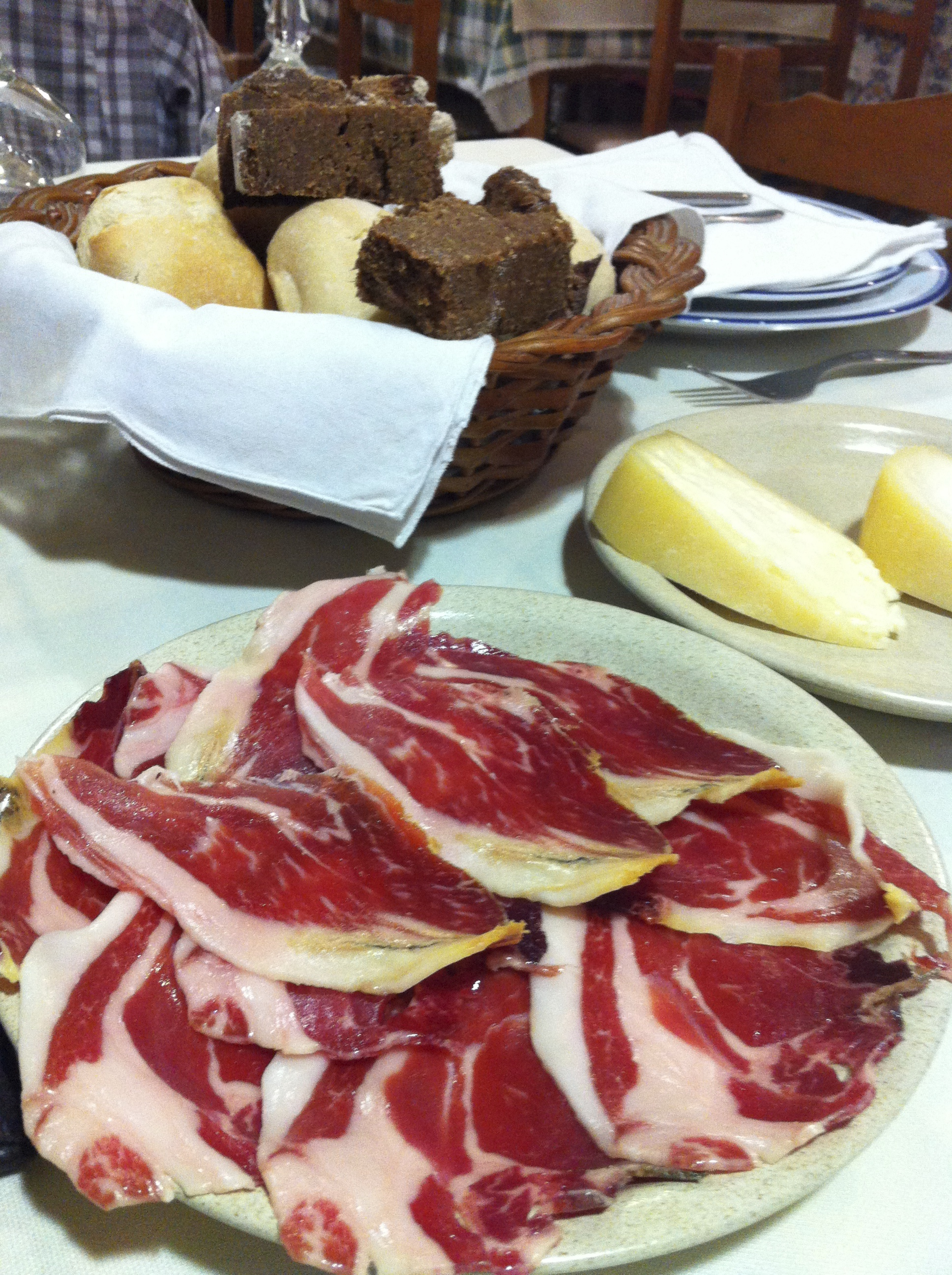 Ham, bread and cheese